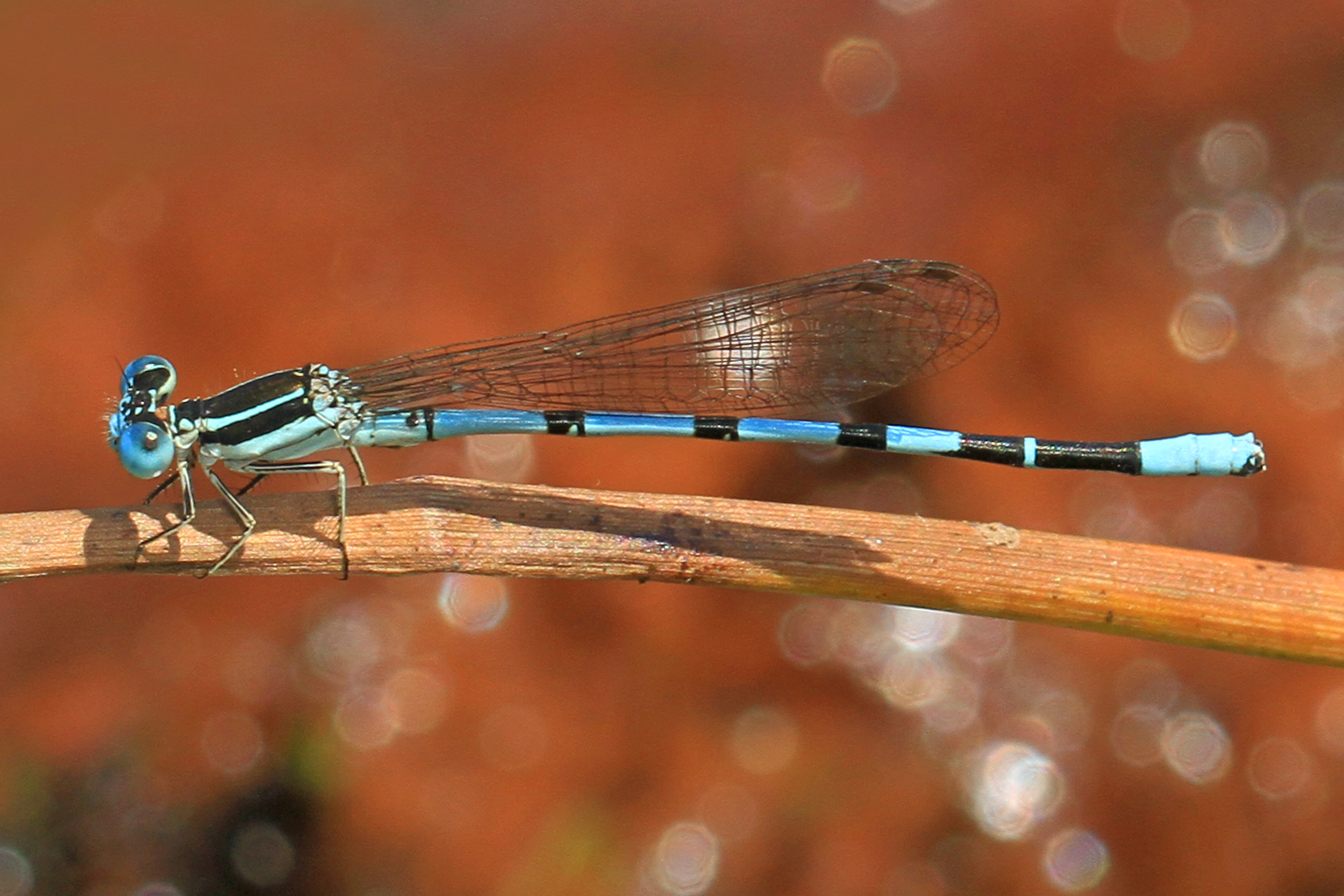 Seepage Dancer - Argia bipunctulata, Patuxent National Wildlife Refuge, Laurel, Maryland